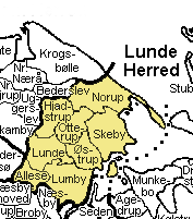 Lunde Herred Odense Amt, Denmark. Map by Svend-Erik Christiansen, edited by user:Nico-dk.